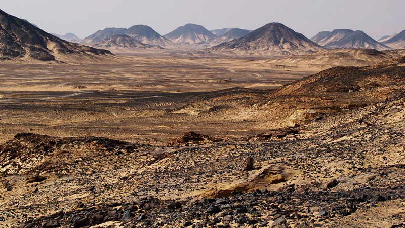 Black Desert (Sahra as-Sauda) between Farafra and Bahariya oasis, Egpyt